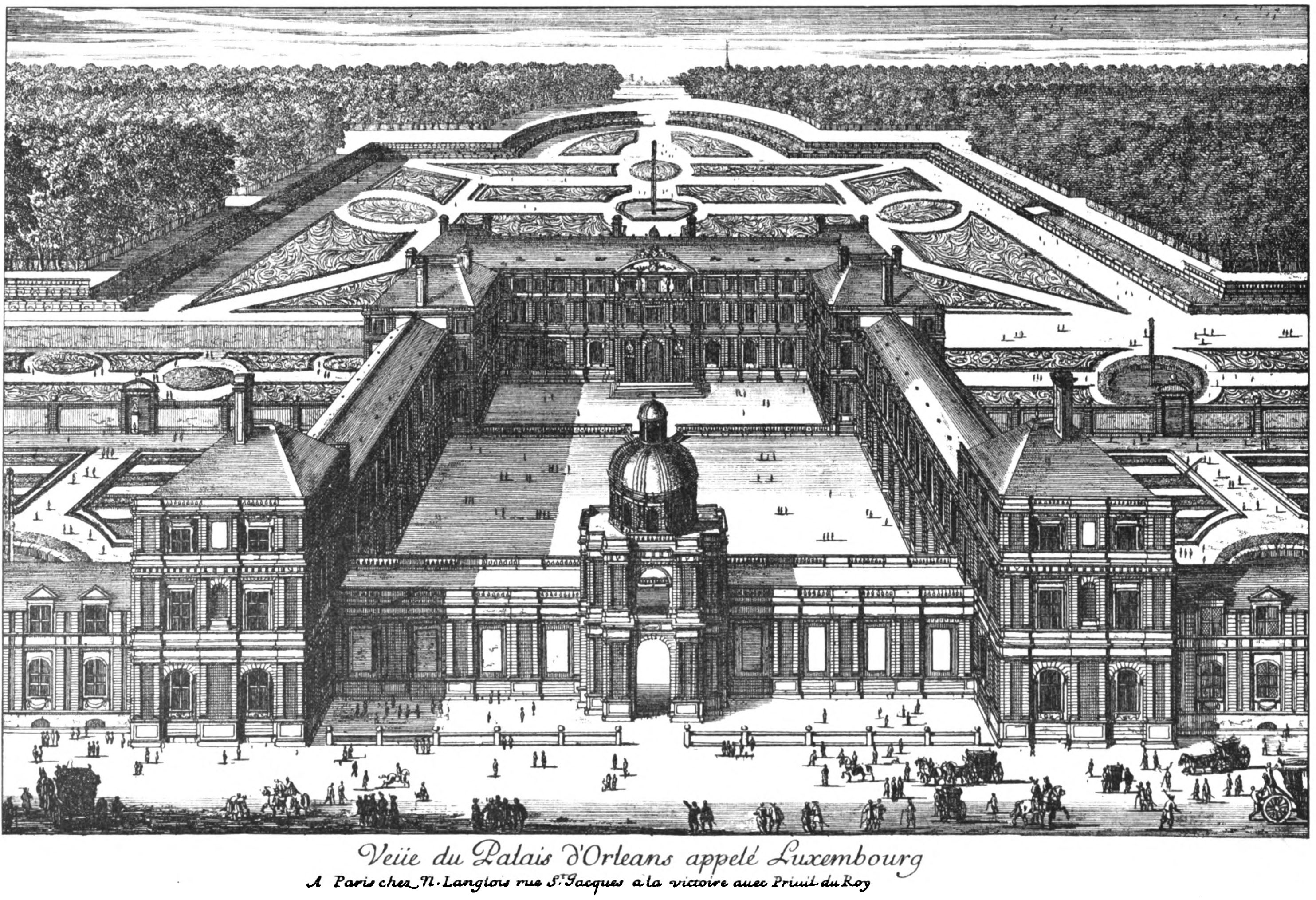 View of the Palais d'Orléans (called Luxembourg) in Paris, ca. 1643, with the garden parterre designed by Jacques Boyceau visible behind the palace